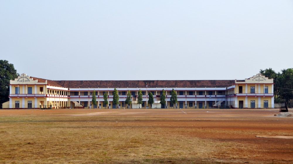 Saint Philomena College, Puttur, Karnataka